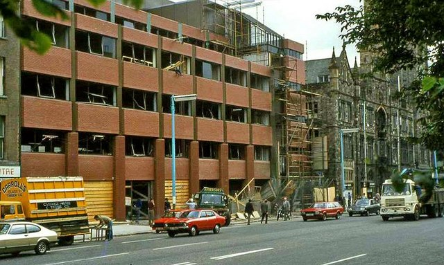 Building repairs, Belfast (1981) On 22 August 1981 a bomb exploded outside offices in nearby Upper Queen Street, causing blast damage to this building in College Square East. Replacement of the glazing was underway. Blast damage made the scene look worse – relatively few buildings (in central Belfast anyway) were demolished because of structural damage.